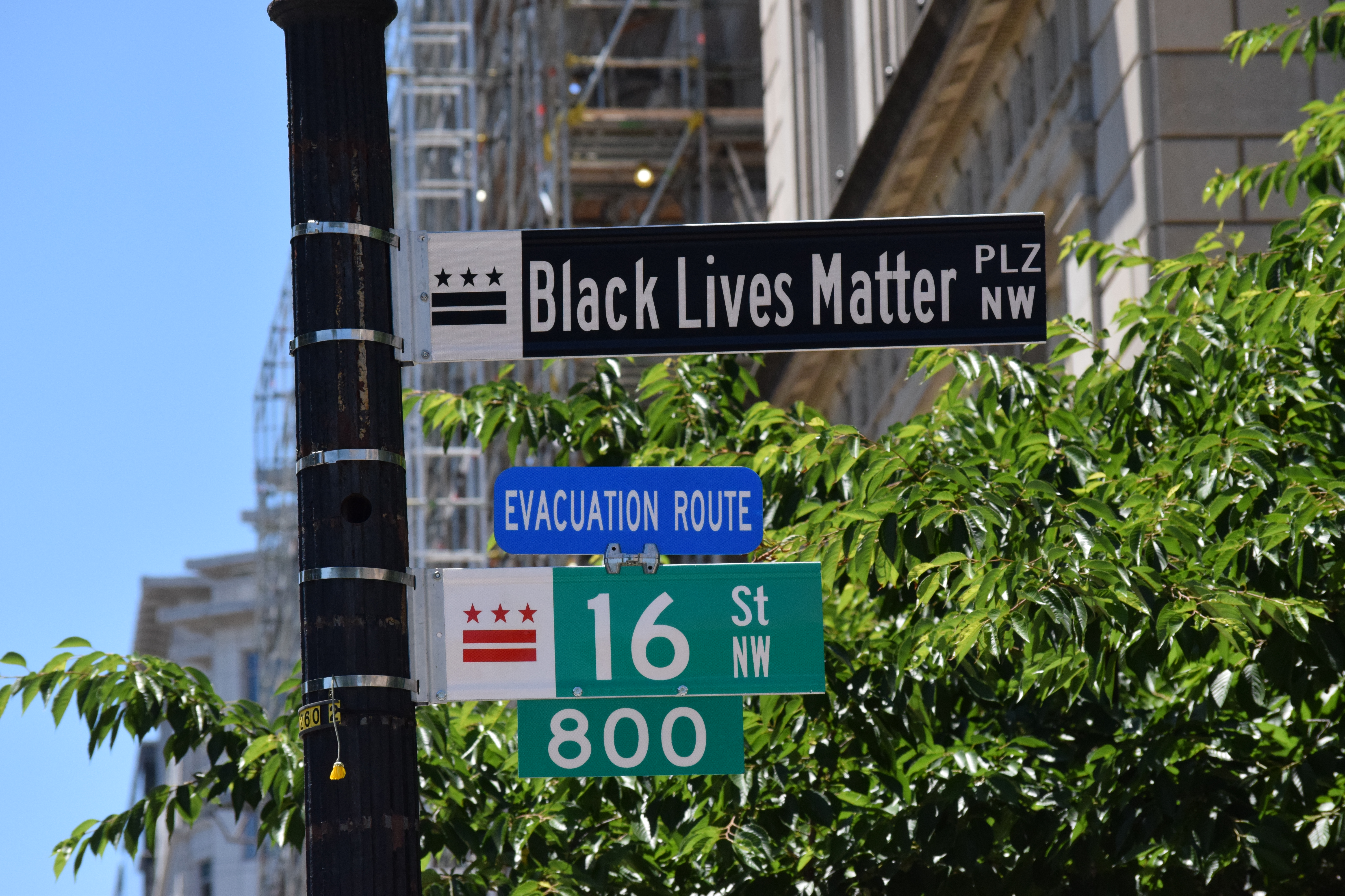 Black Lives Matter Plaza Sign Indicating the Plaza. The signs are black with white lettering.